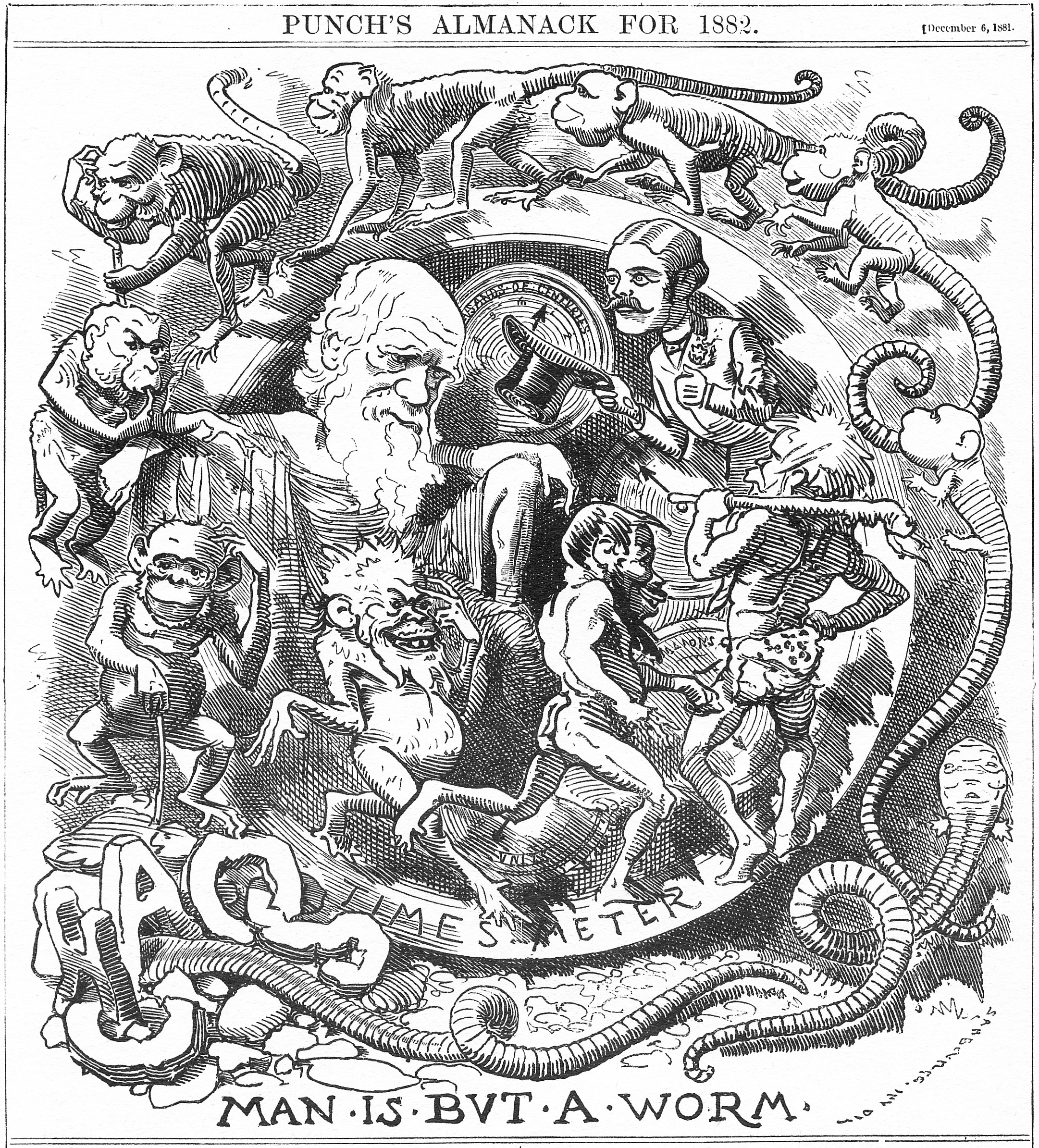 Caricature of Darwin's theory in the Punch almanac for 1882, published at the end of 1881 when Charles Darwin had recently published his last book, The Formation of Vegetable Mould Through the Action of Worms.